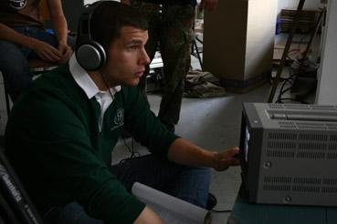 Director Tarek Ehlail at work